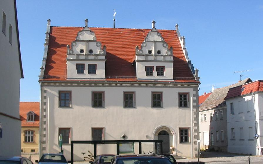 City hall in Renaissance style in Niemegk, built in 1570. The town Niemegk is a part of the Potsdam Mittelmark, state Brandenburg, Germany.